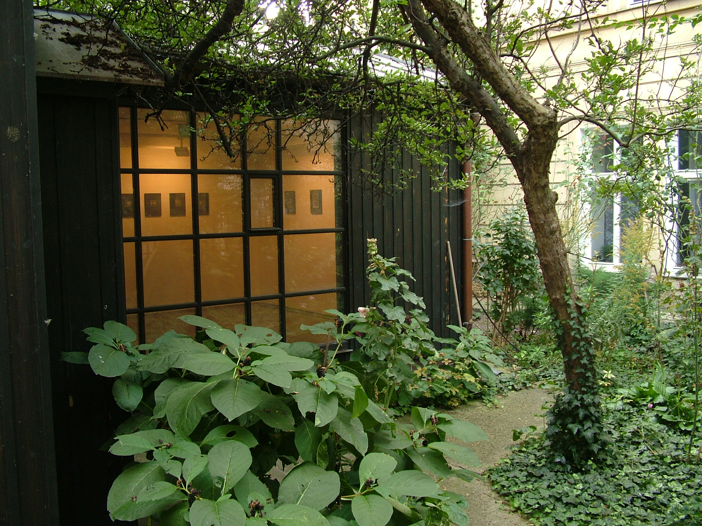 Josef Sudek Gallery, Újezd 30, Praha 1, Czech Republic